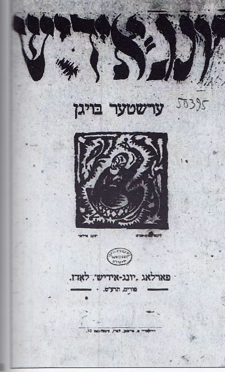 Title page of Yung Yiddish, first issue